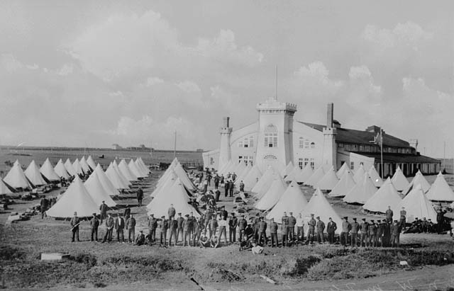 Royal North-West Mounted Police Barracks, 1918. Recruits gathering for overseas service at the Depot, 1918